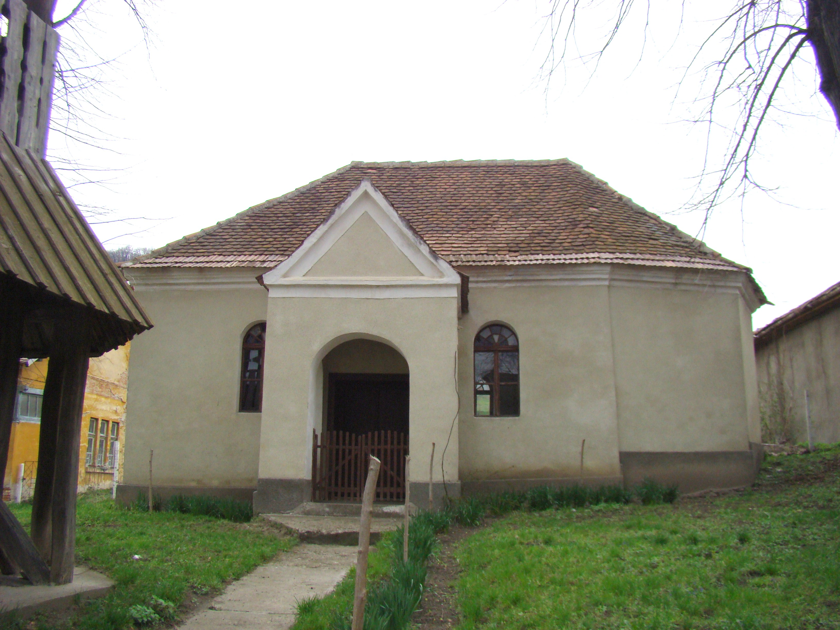 Protestant church in Valea Lungă, Alba county, Romania